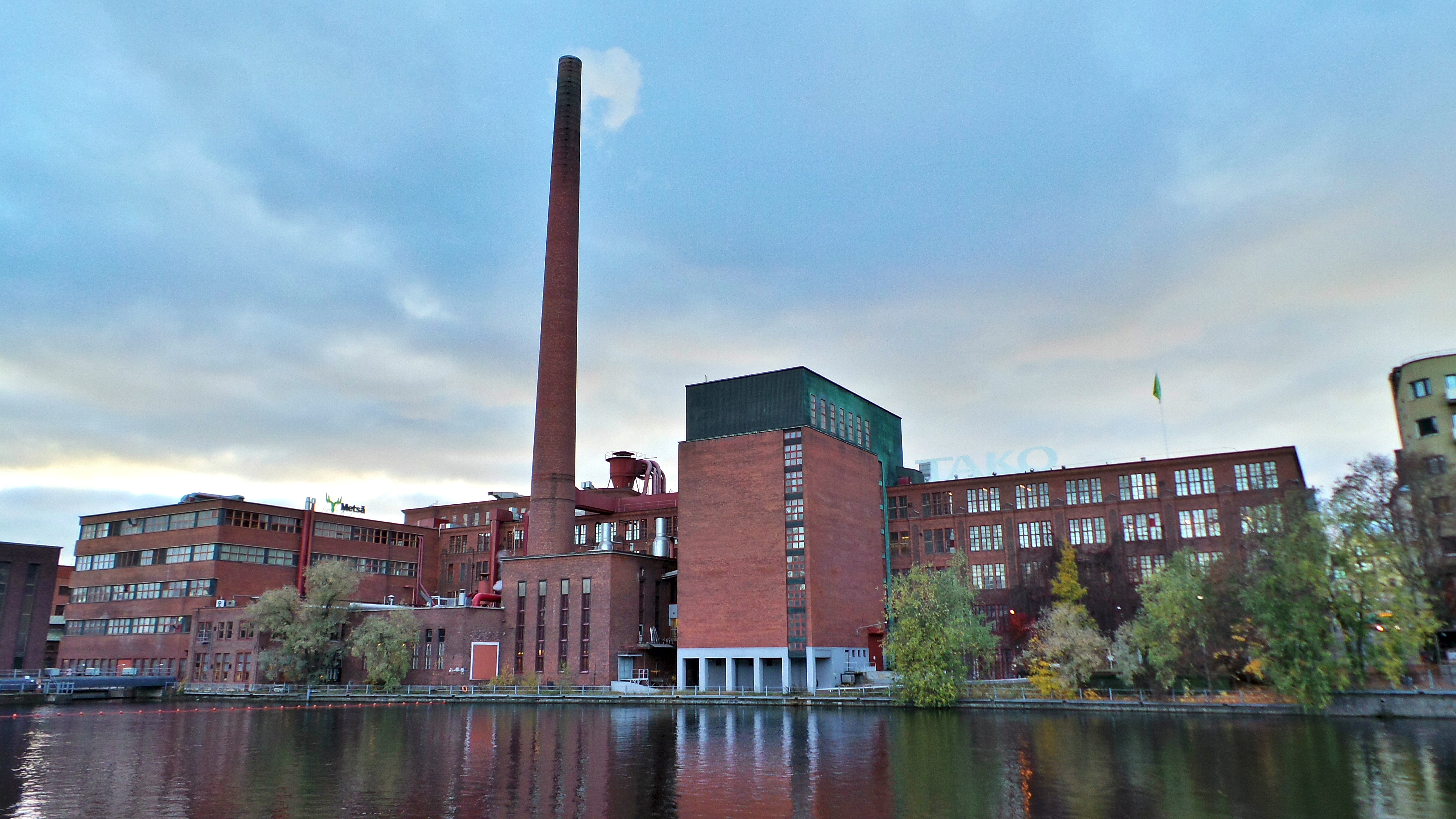 Tako factory near Tammerkoski